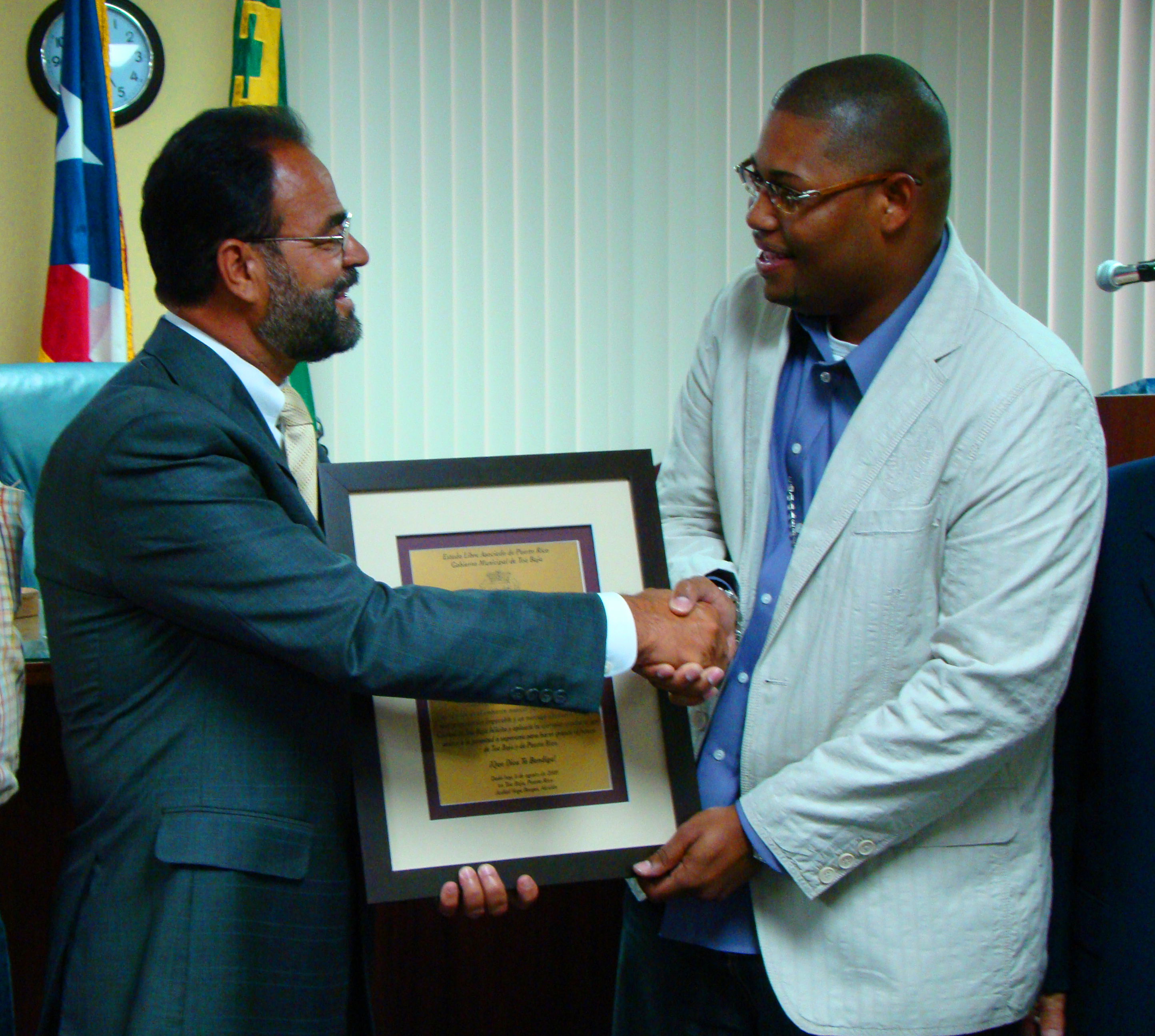 Travy Joe receiving the Key of Toa Baja City